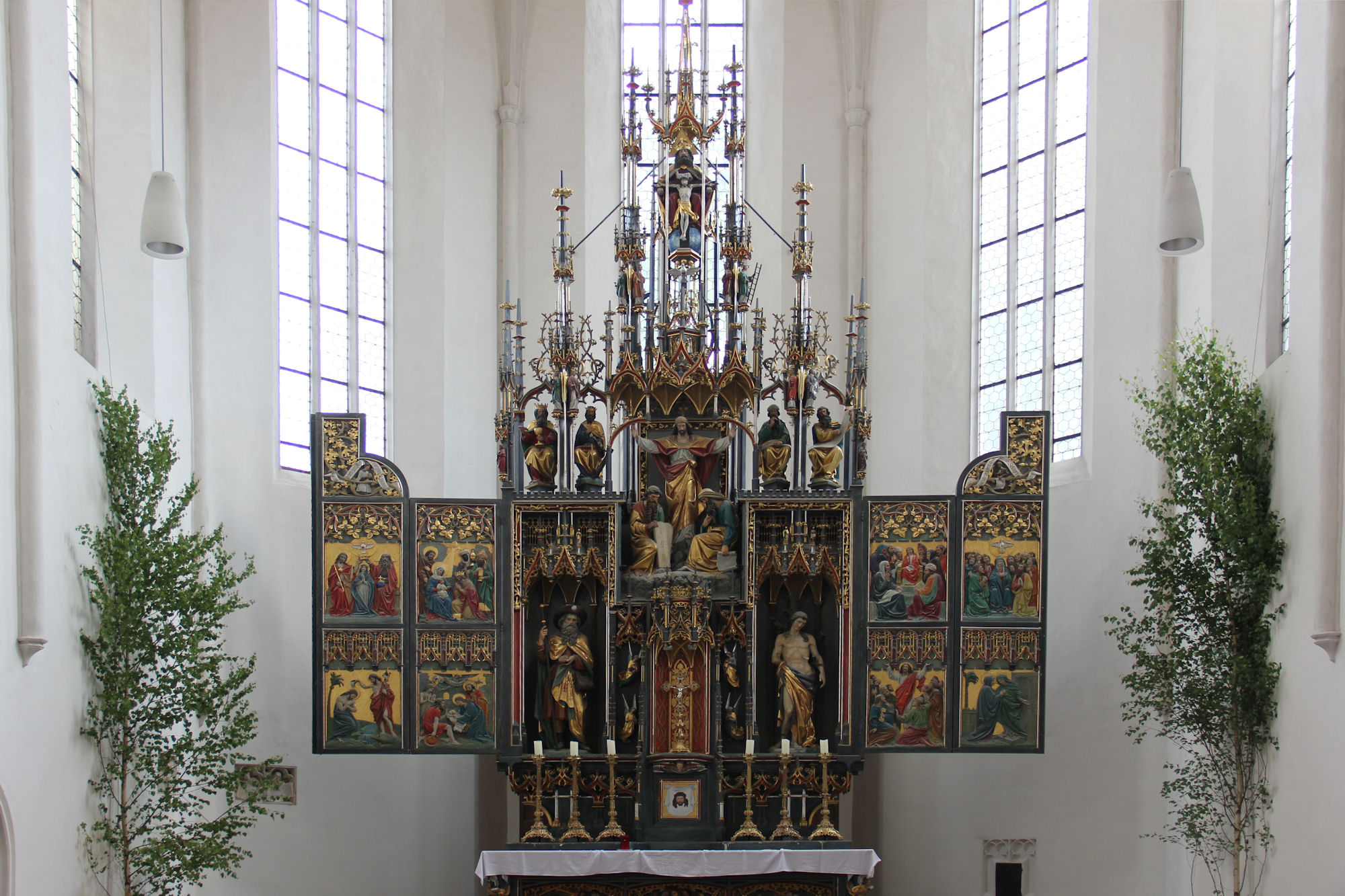 The main altar Church of St. Jodok Native nameSt. JodokLocationLandshut, Lower Bavaria, GermanyCoordinates48° 32′ 10.8″ N, 12° 09′ 27.6″ E